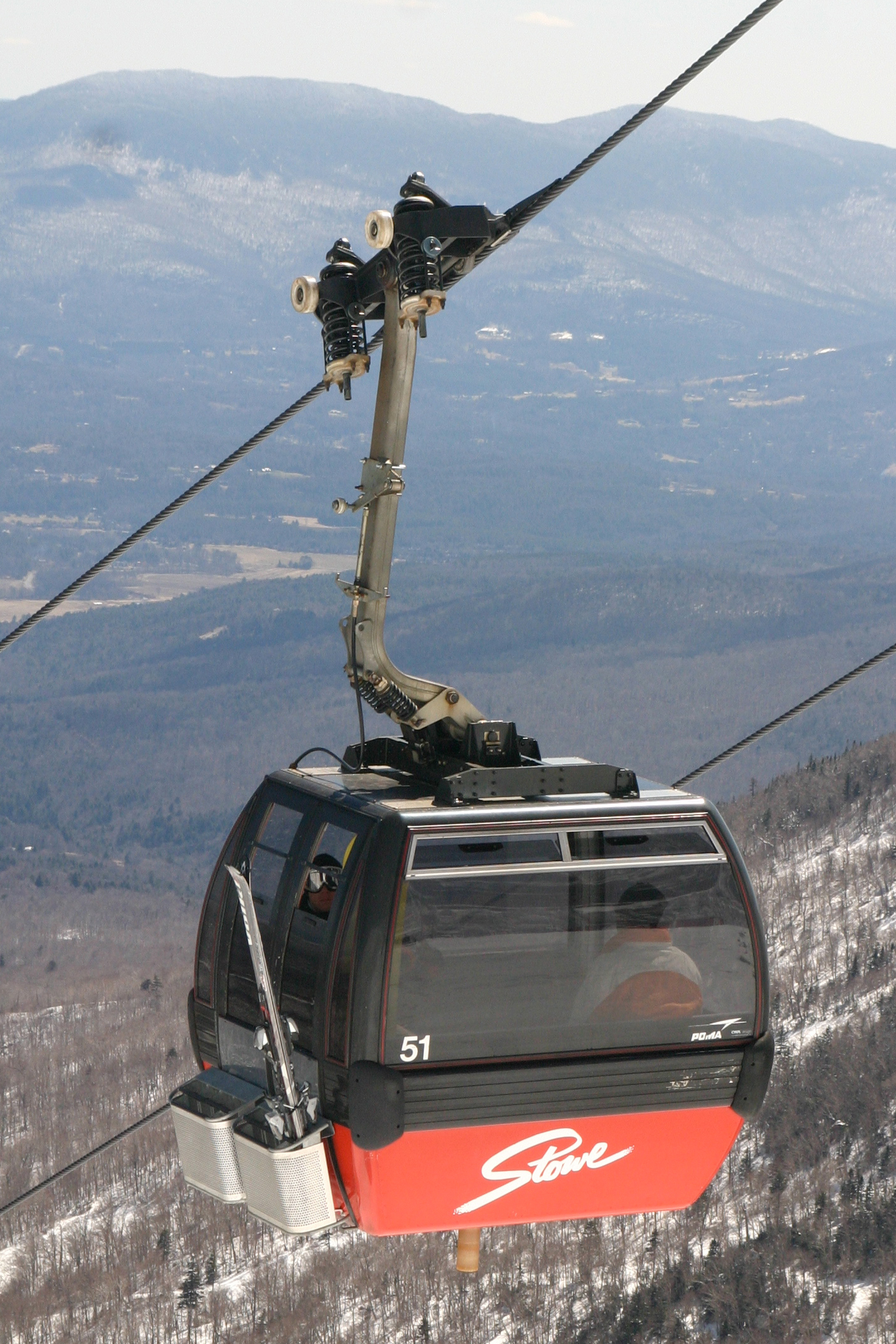 Photograph of a Gondola lift car at Stowe, Vermont